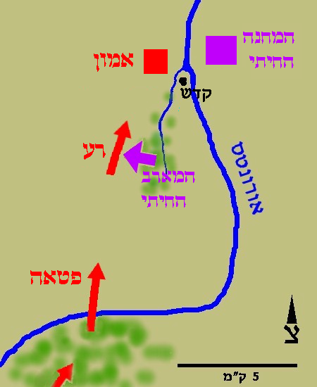 Map of the Battle of Kadesh.